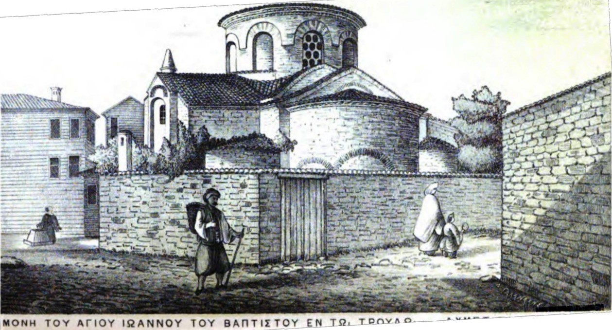 Byzantinai meletai topographikai (1877) Author: Paspatēs, Alexandros Geōrgiou, 1814-1891. [from old catalog] Subject: Inscriptions, Greek Year: 1877 Possible copyright status: NOT_IN_COPYRIGHT Language: English Digitizing sponsor: Google Book contributor: Oxford University Collection: europeanlibraries